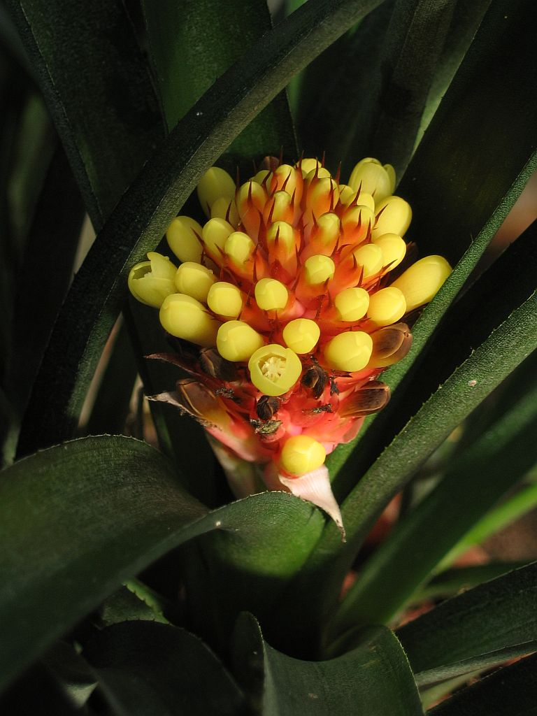 Aechmea pimenti-velosoi var. glabra, in cultivation at the Botanical Garden of Heidelberg, Germany.